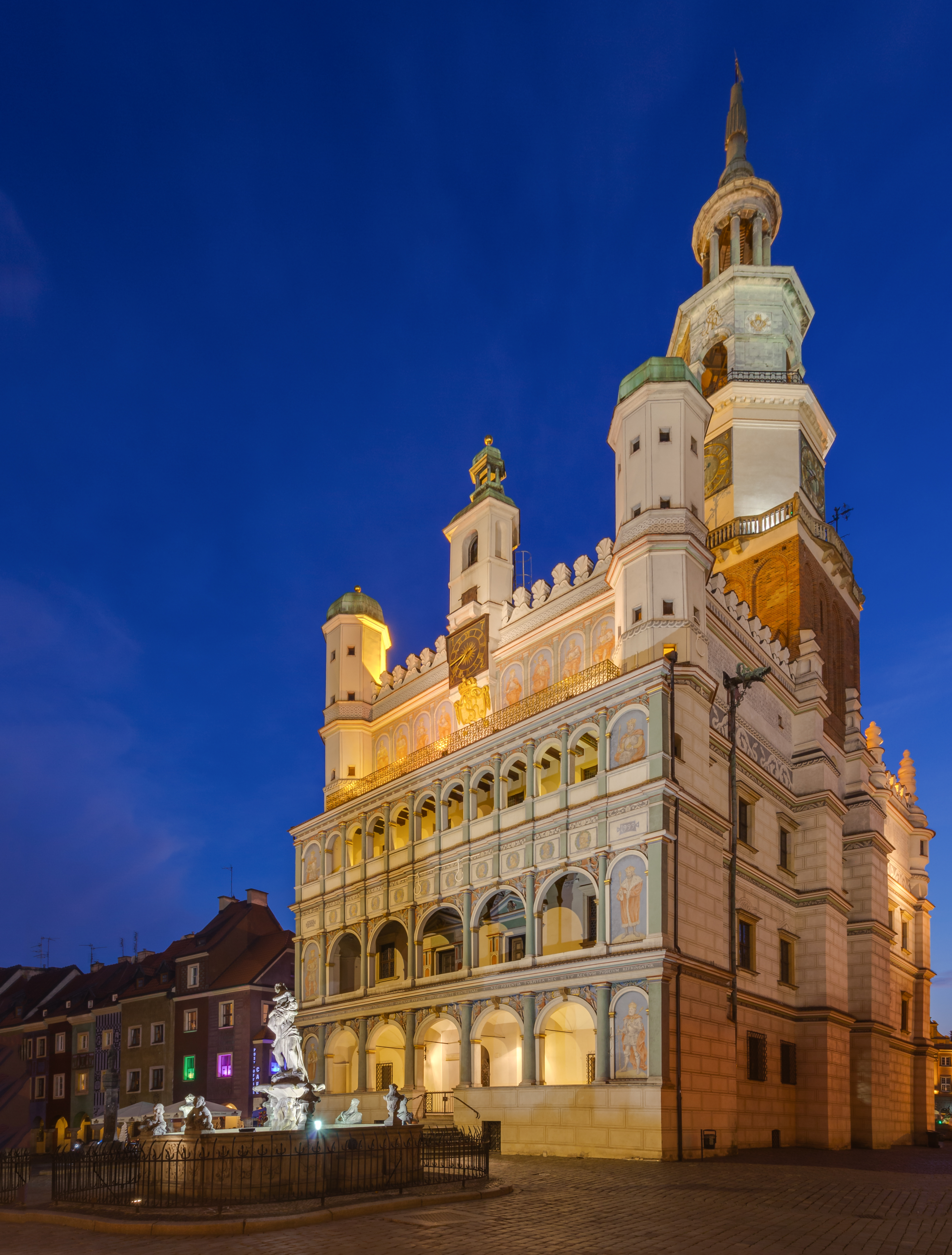 Town hall, Poznan, Poland